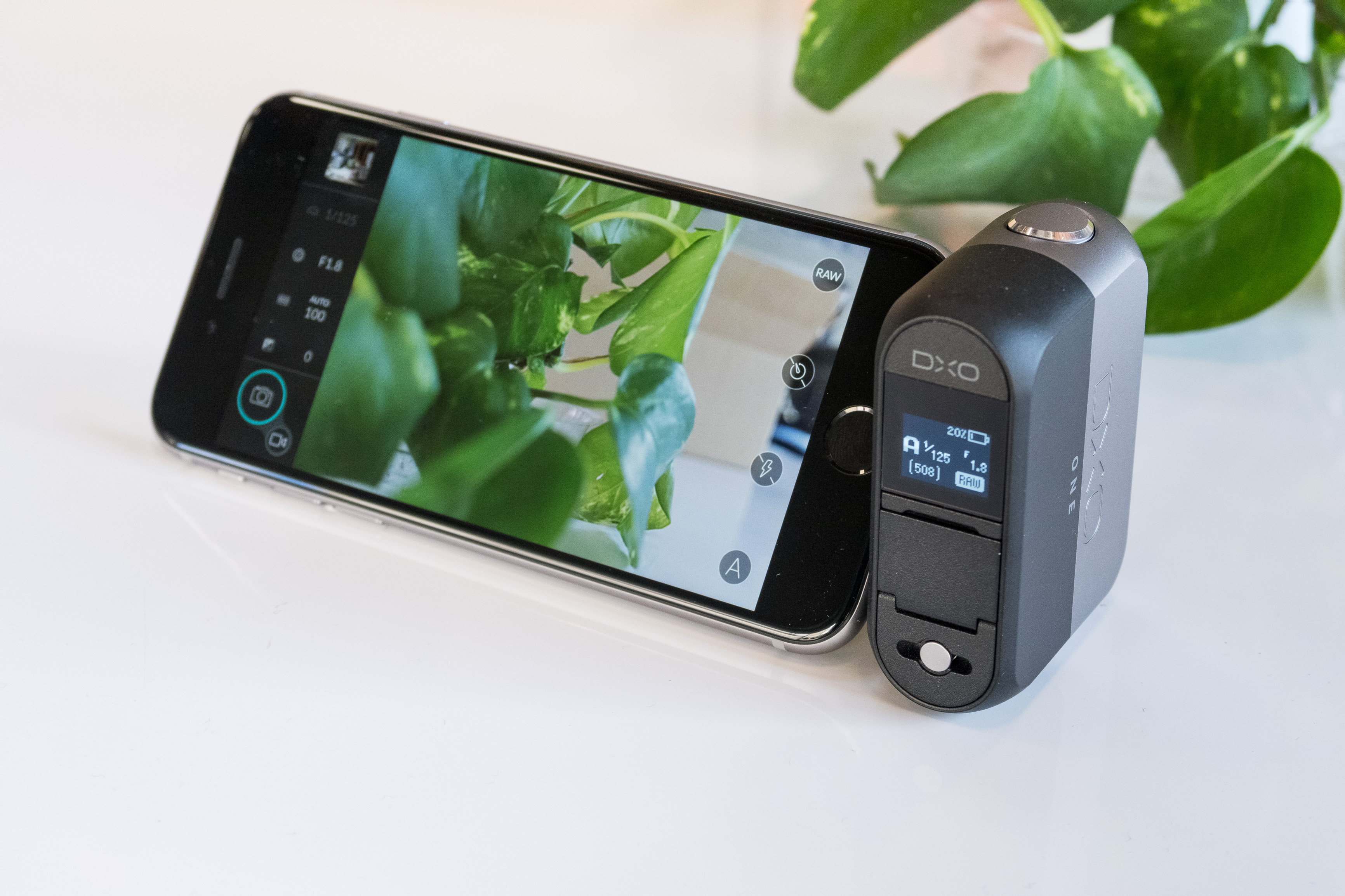 DxO ONE camera connected to iPhone 6, shooting in Aperture Priority